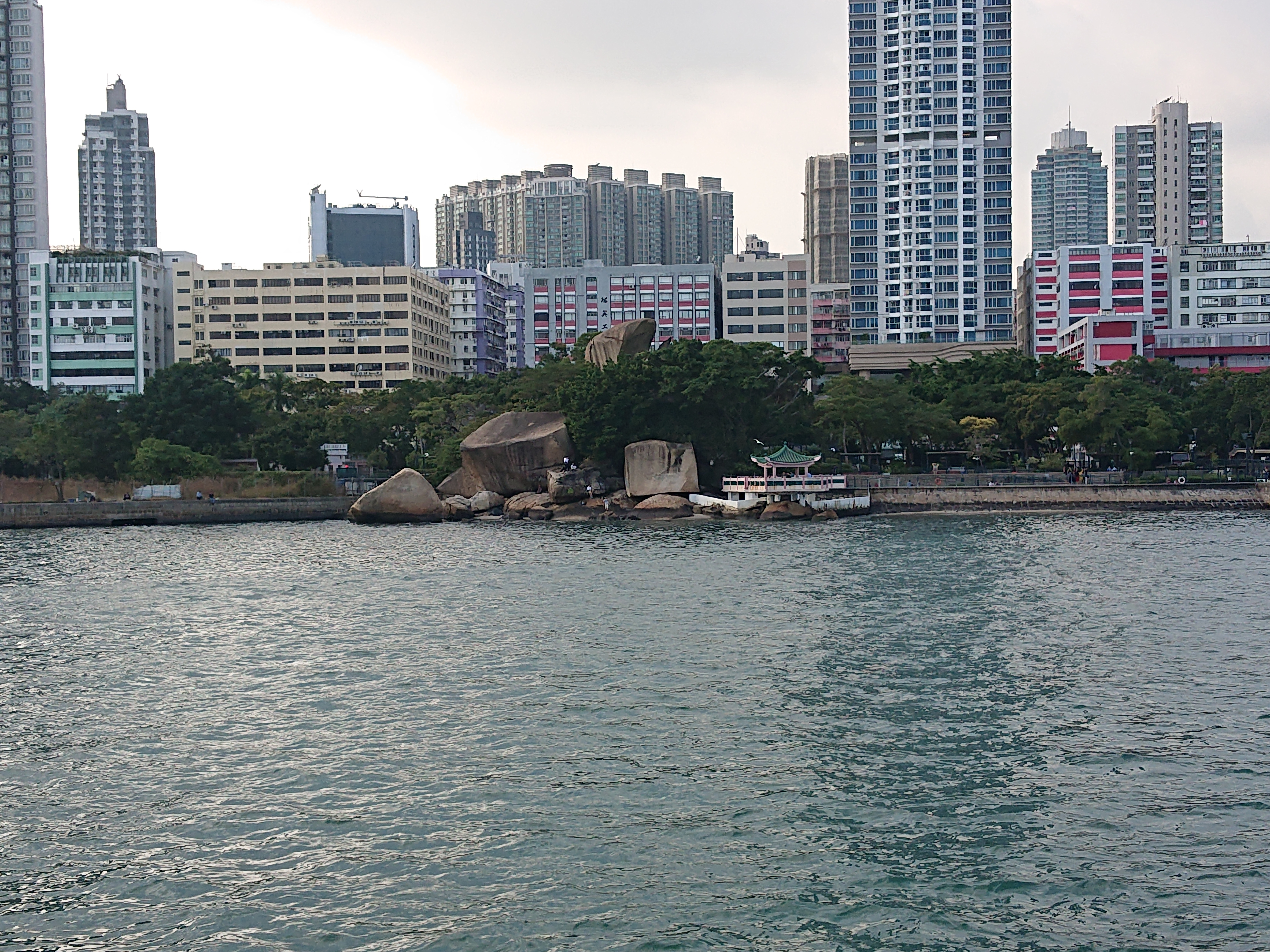 Hoi Sham Island viewed from Victoria Harbour